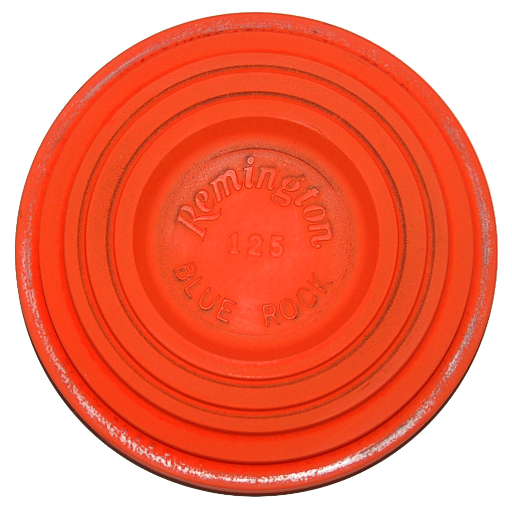 four inch Remington clay pigeon